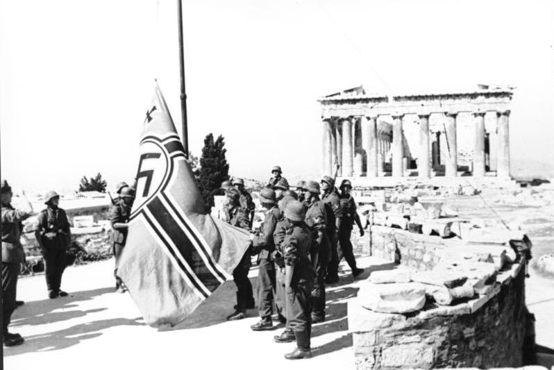 Information added by Wikimedia users.